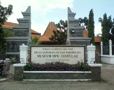 Mpu Tantular State Museum, Sidoarjo, East Java, IndonesiaBahasa Indonesia: Museum Negeri Mpu Tantular, Sidoarjo, Jawa Timur, Indonesia